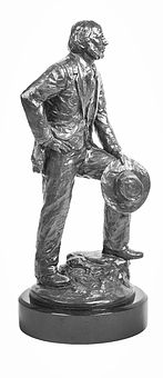 Statuette by the Danish-American sculptor, Dennis Smith, depicting Peter Lassen